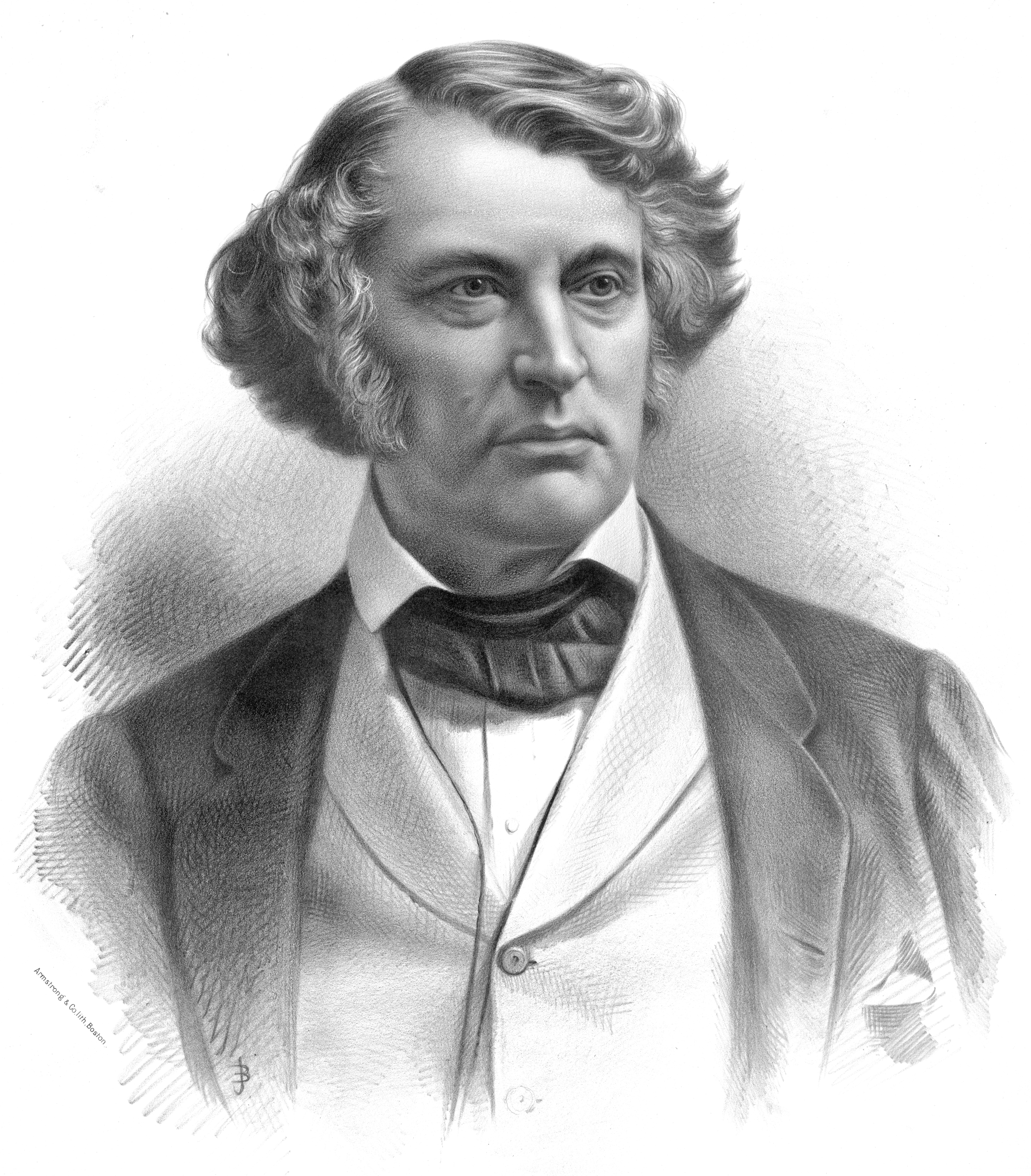 Charles Sumner D size print.